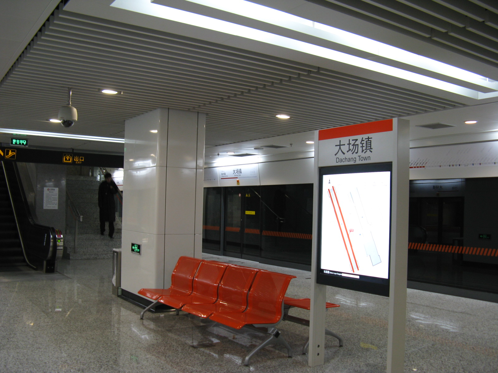 Dachang Town Station Line7 Shanghai Metro